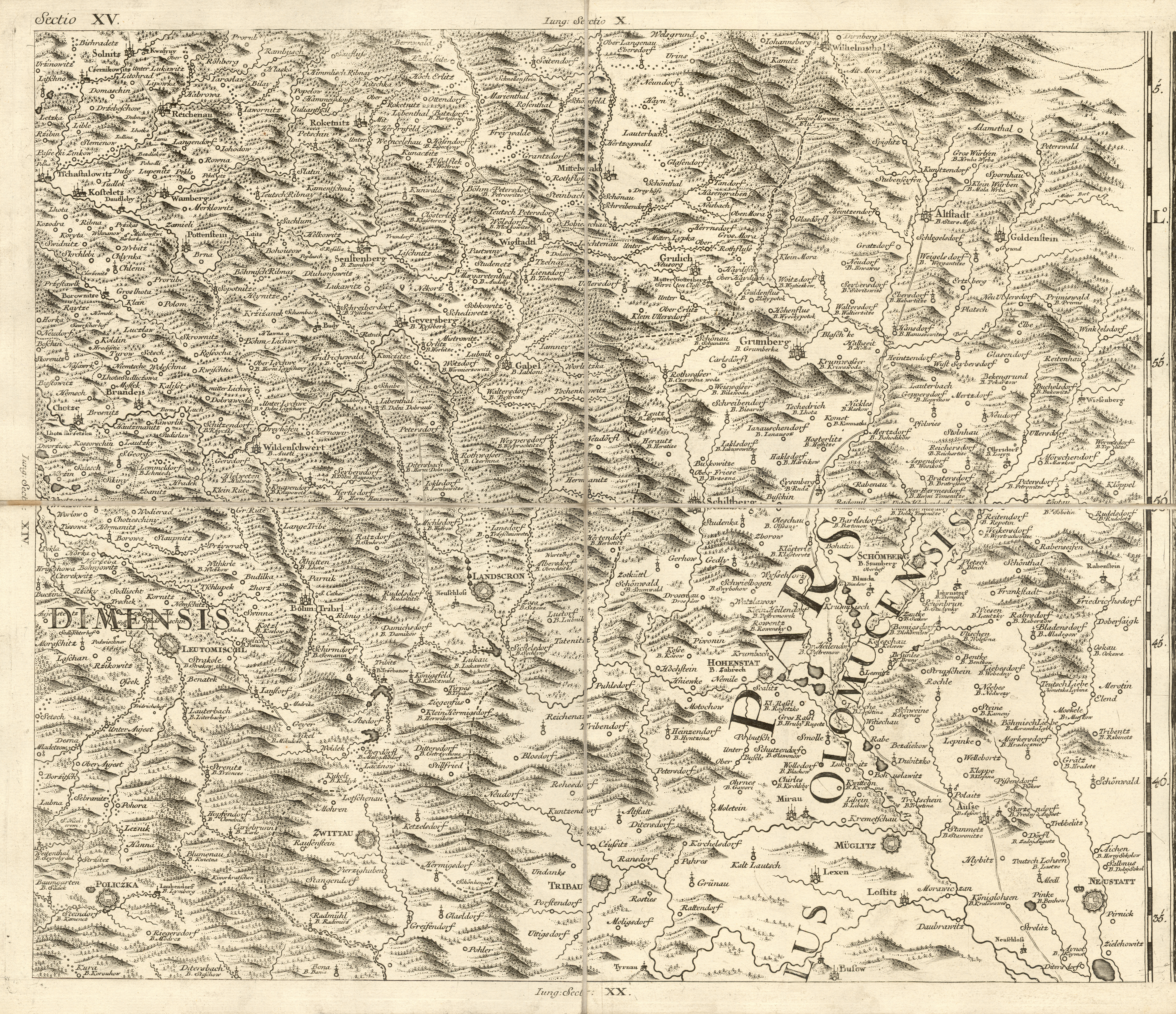 Müller's map of Bohemia.